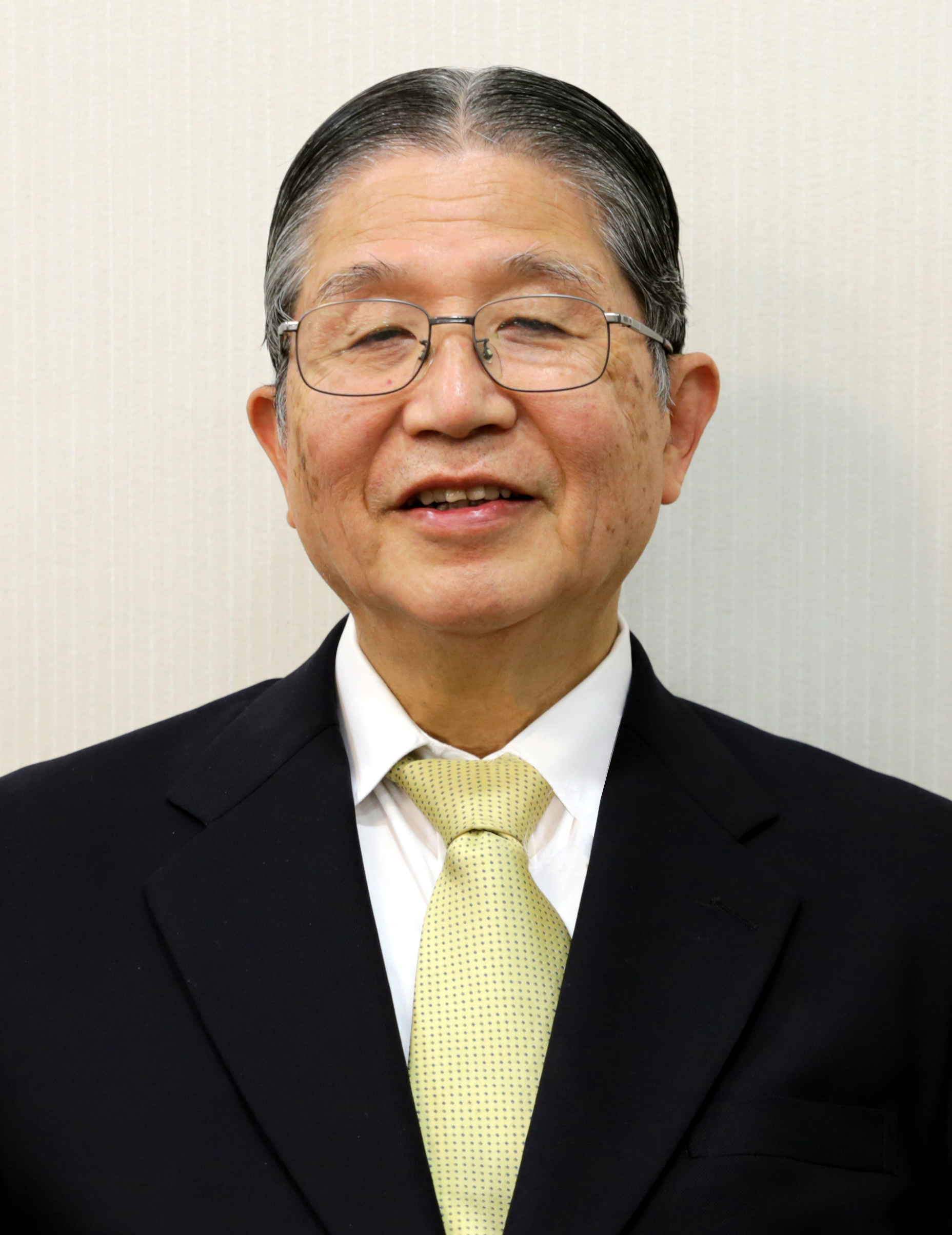 Akira Fujishima, President of Tokyo University of Science, received the Order of Culture on November, 2017.